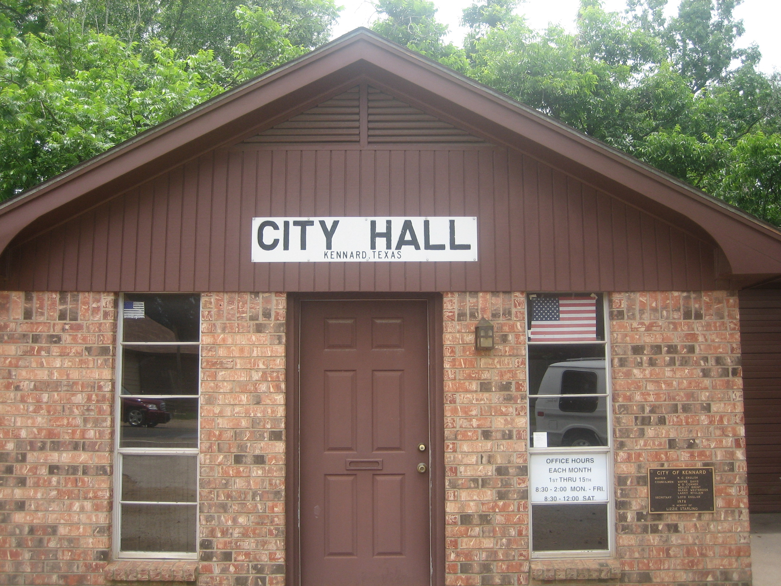 I took photo on May 27, 2009.Billy Hathorn (talk) 17:44, 31 May 2009 (UTC)